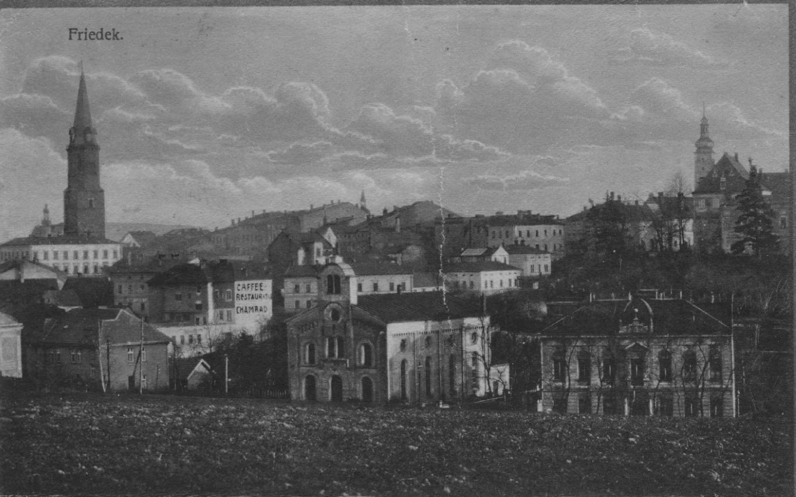 Synagogue in Frýdek (CZ) in years 1865-1939, right: jewish school, behind: Frydek castle